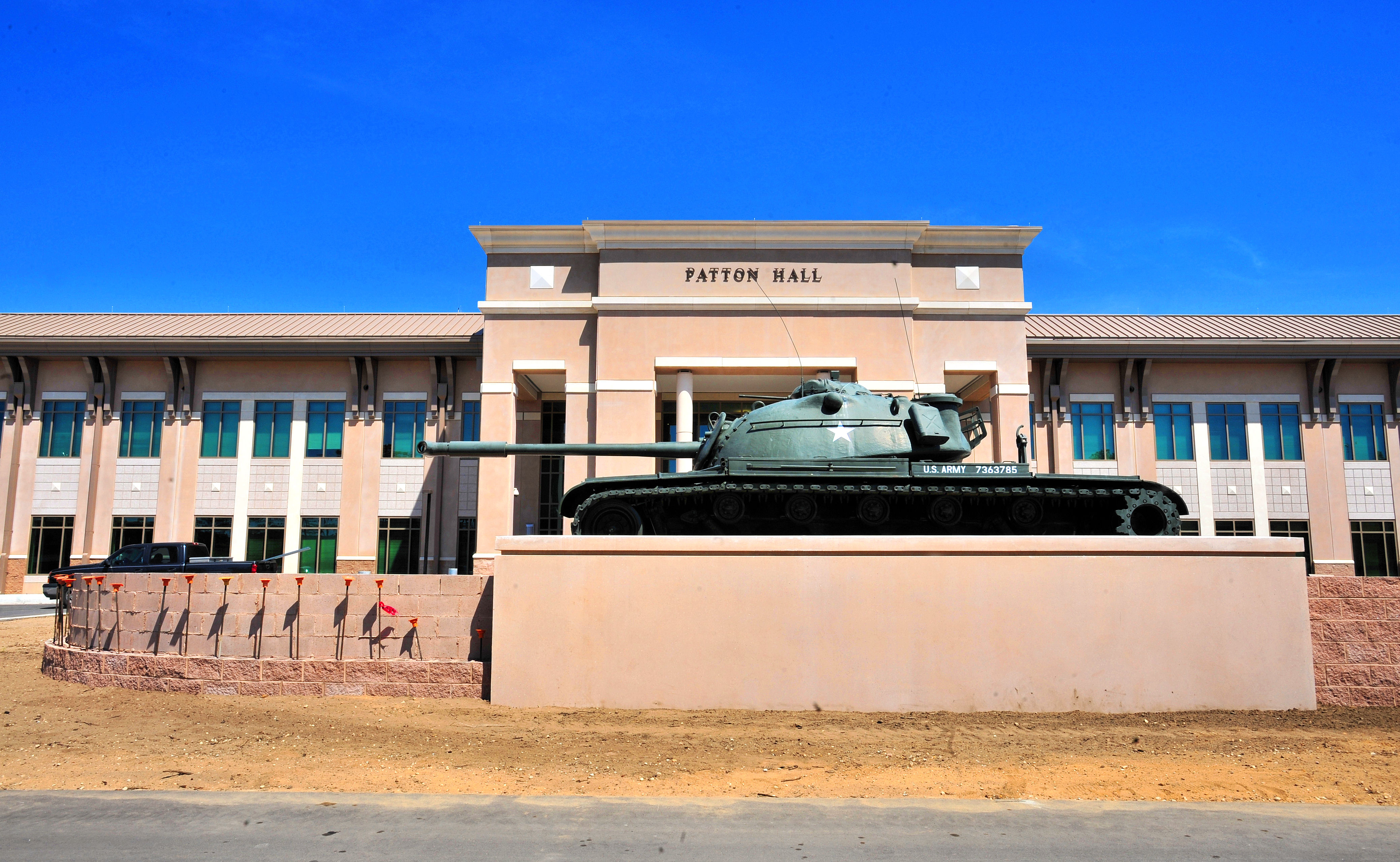 SHAW AIR FORCE BASE, S.C.- The Army Central command's building ribbon cutting is scheduled for May 20. The construction is scheduled to be finished in mid-July. (U.S. Air Force photo/Airman 1st Class Tabatha Duarte